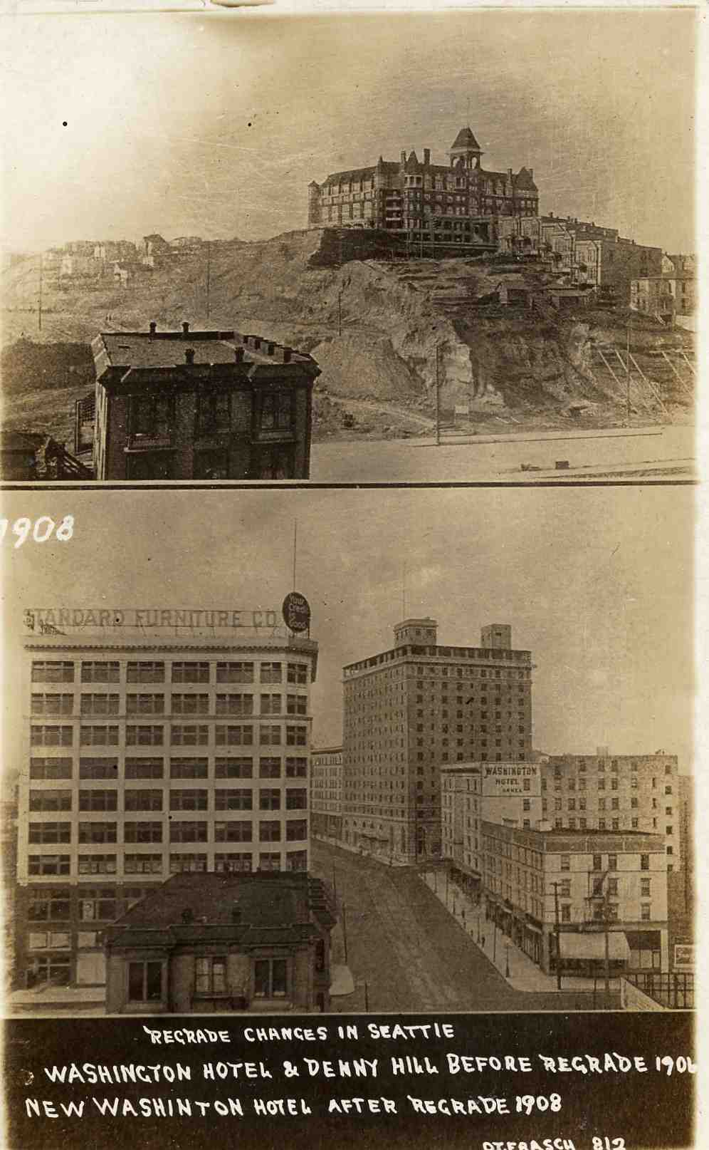 Postcard showing before and after views of part of the Denny Regrade project in Seattle, Washington. Upper view shows the (old) Washington Hotel in 1906, lower shows the New Washington Hotel in 1908 (at roughly the same spot). Published by O.T. Frasch, August, 1912.